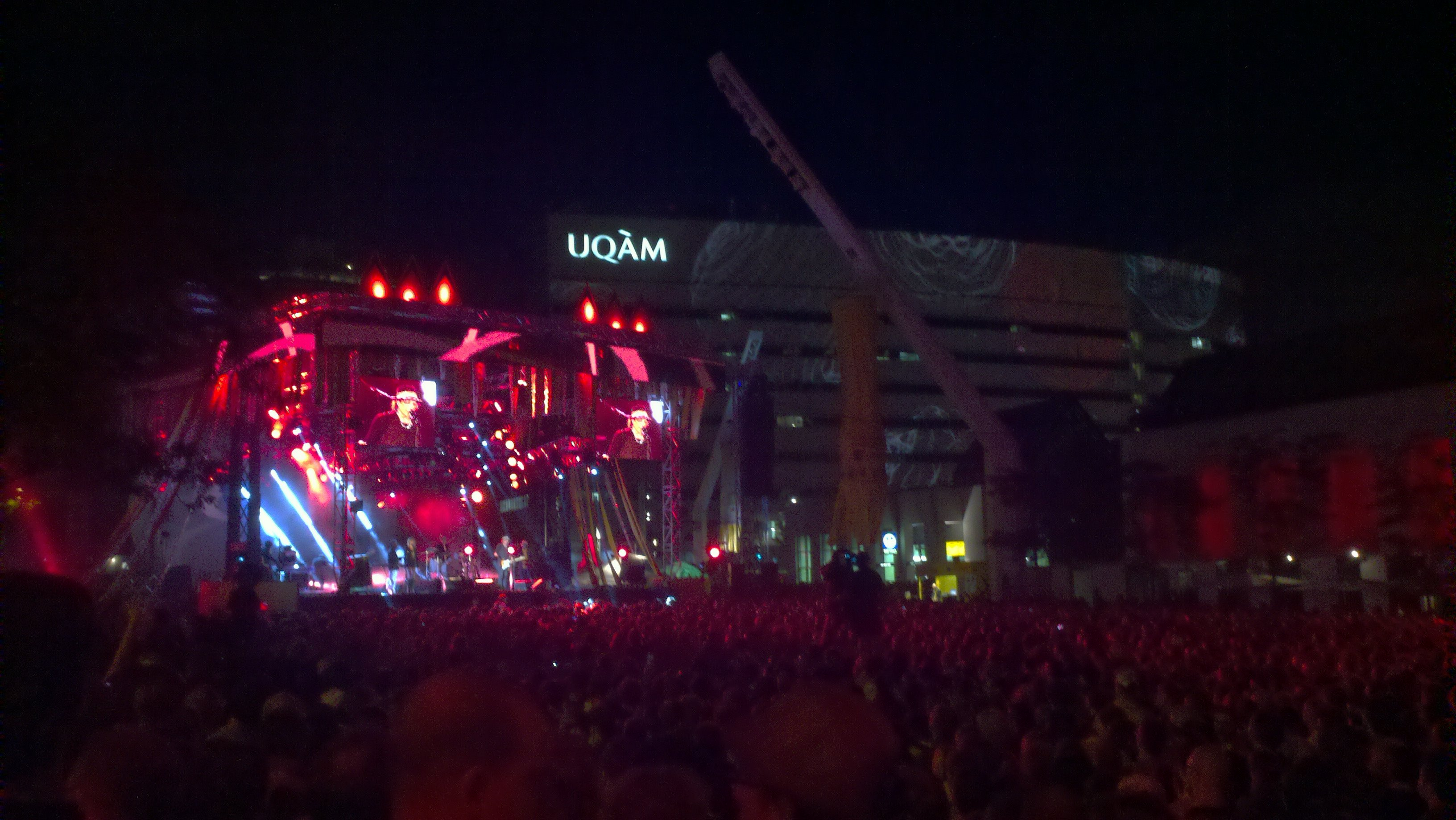 Jean Leloup 2012-07-26 huge free concert in Montreal